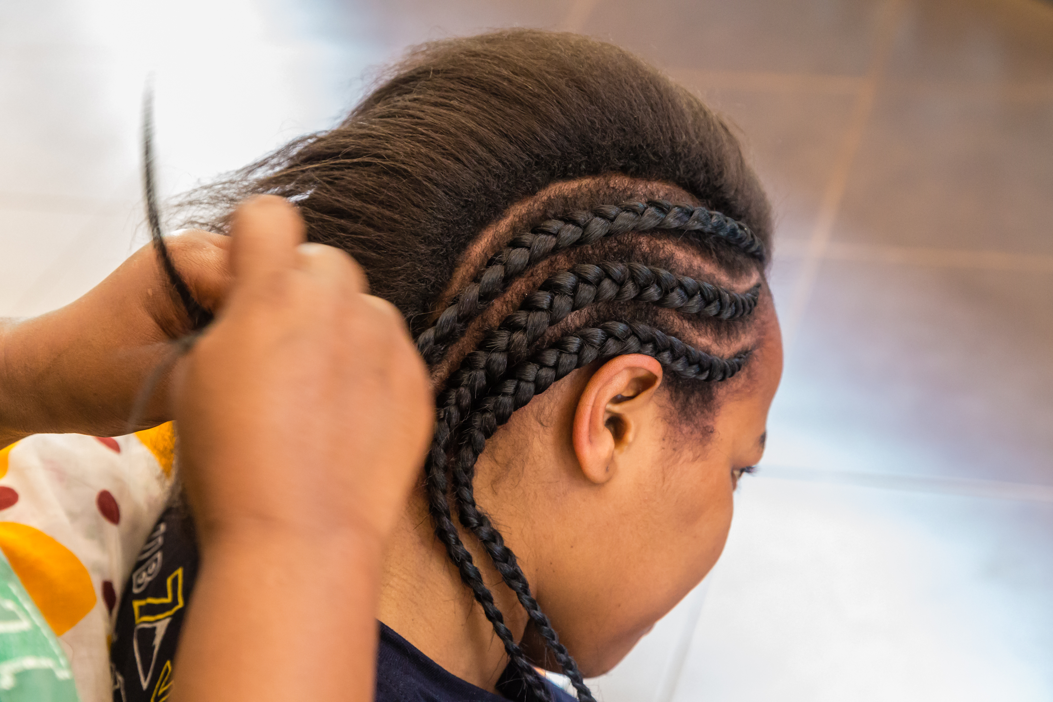 This is an image of "African people at work" from Tanzania